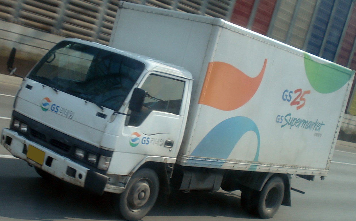 Hyundai Mighty